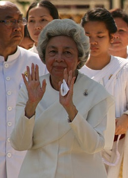 King Norodom Sihamoni of Cambodia and Queen Norodom Monineath, his mother, the last wife of the late King Norodom Sihanouk